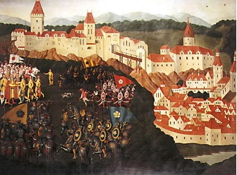 Witigonen